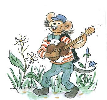 Klatremus, created and drawn by Thorbjørn Egner. From his book Hakkebakkeskogen. Please credit the artwork as Drawing: Thorbjørn Egner.